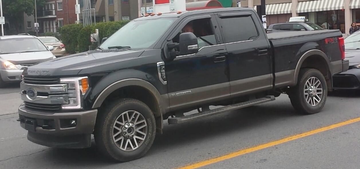 2017-present Ford Super Duty F-250 photographed in Montréal , Québec, Canada.